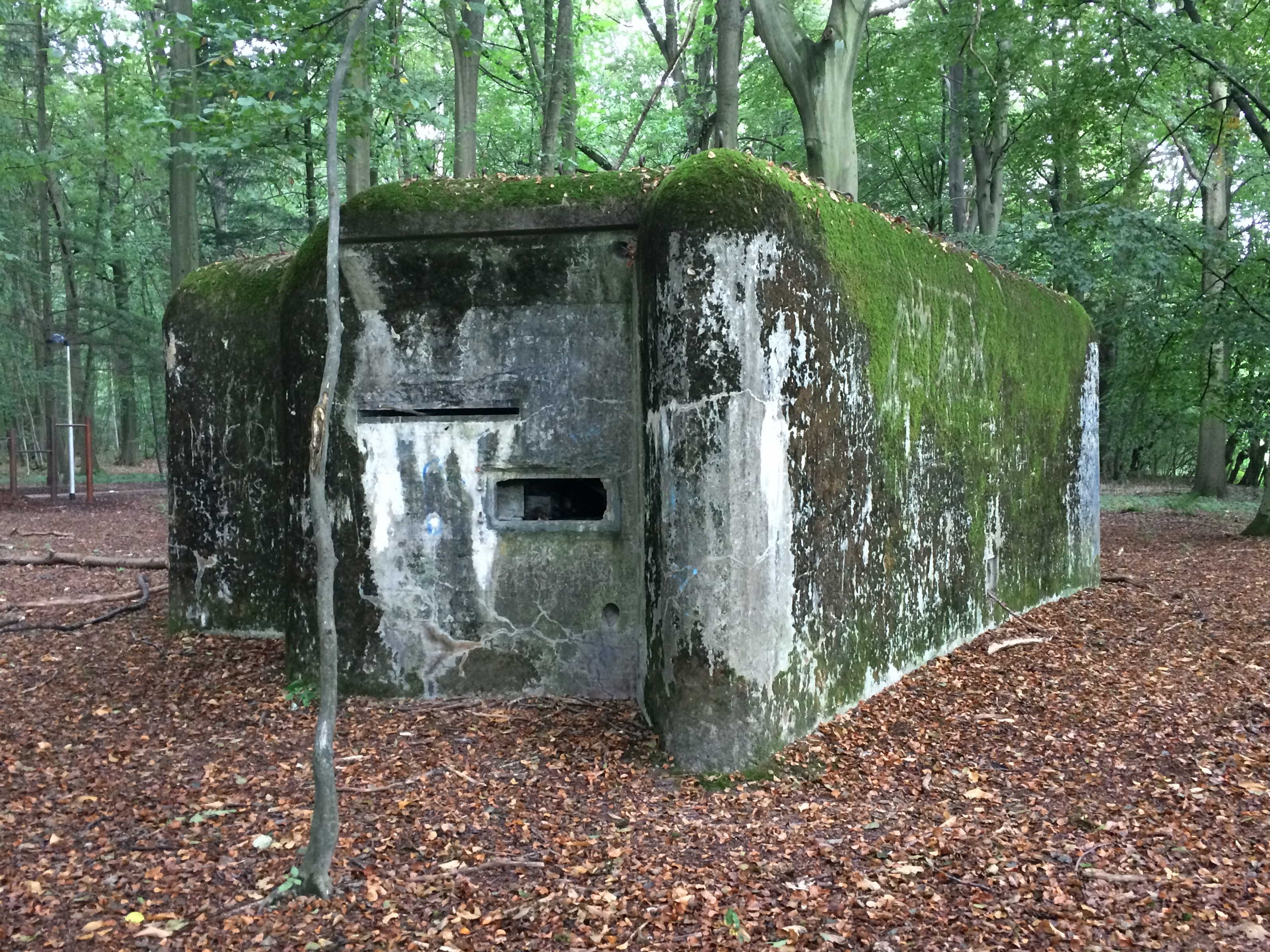 Bunker of the Belgian "K-W line" of fortifications, built in the 1930's near Wavre.